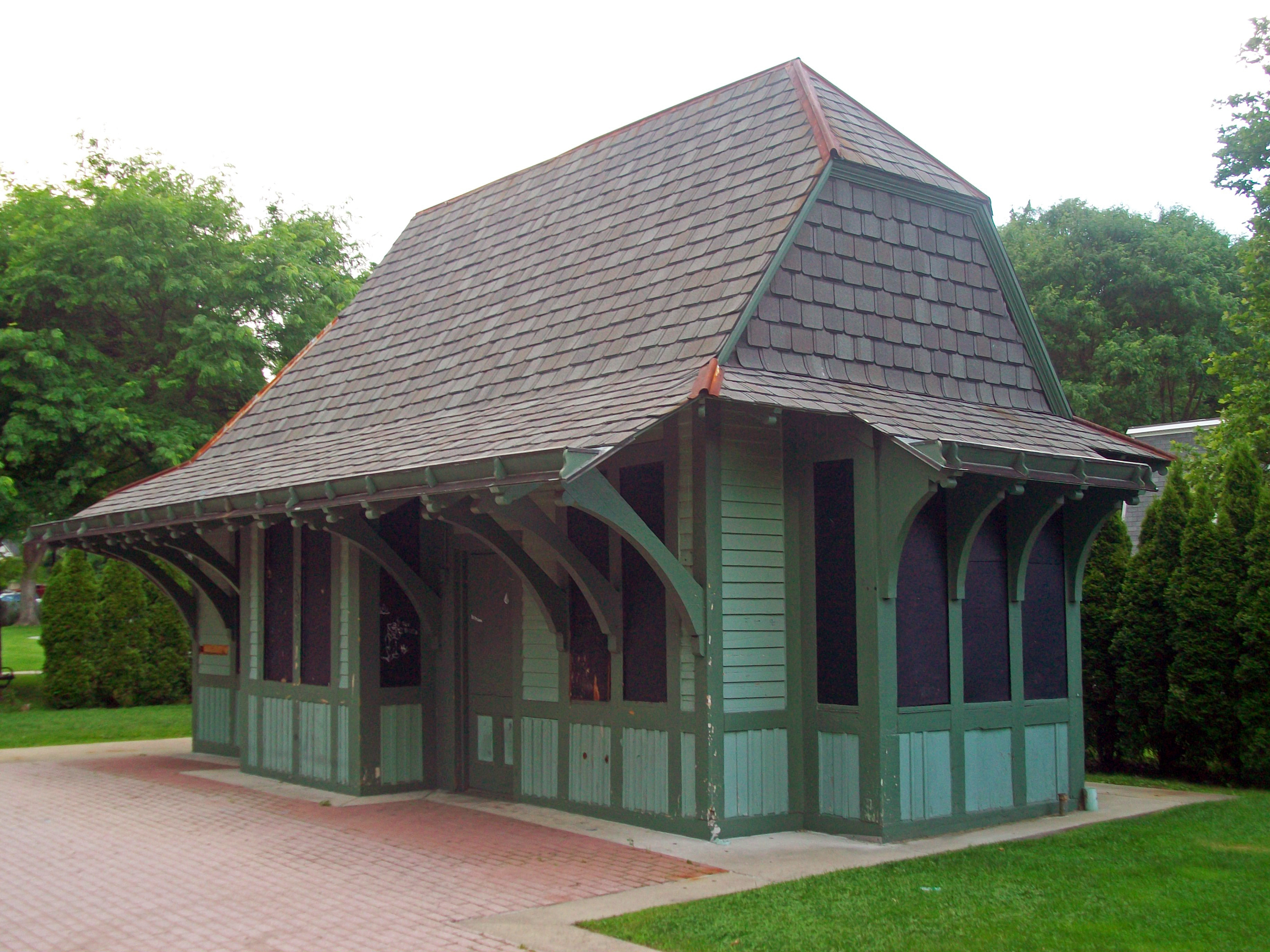 Former Yorktown Heights, NY, USA, train station building.